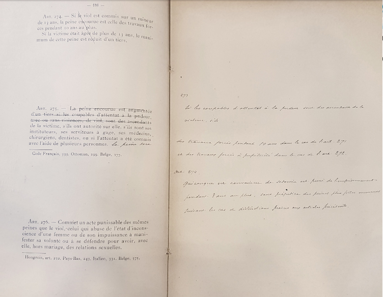 The first draft of the formulation of the sodomy law in the margins of the "Outrages against Decency" section